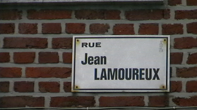 Street sign at Herstal, the pen name of a writer in Walloon Walon: Rowe Jean Lamoureux a Hesta